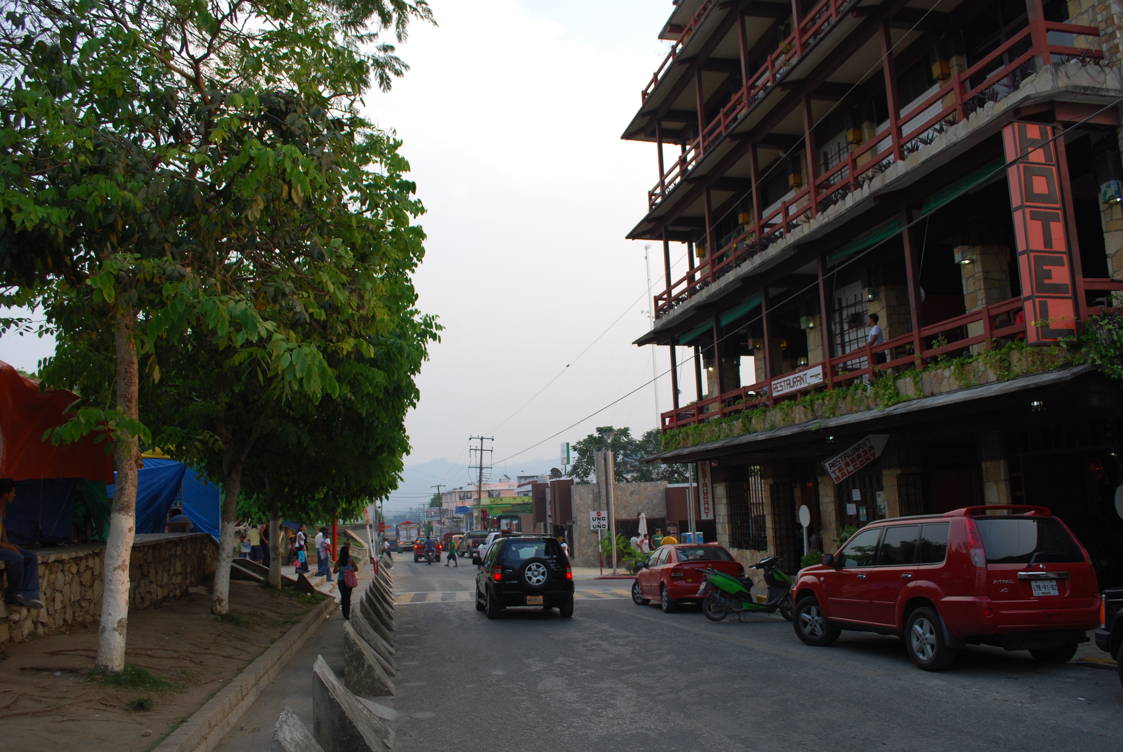 Central Norte street in Palenque, Chiapas, Mexico